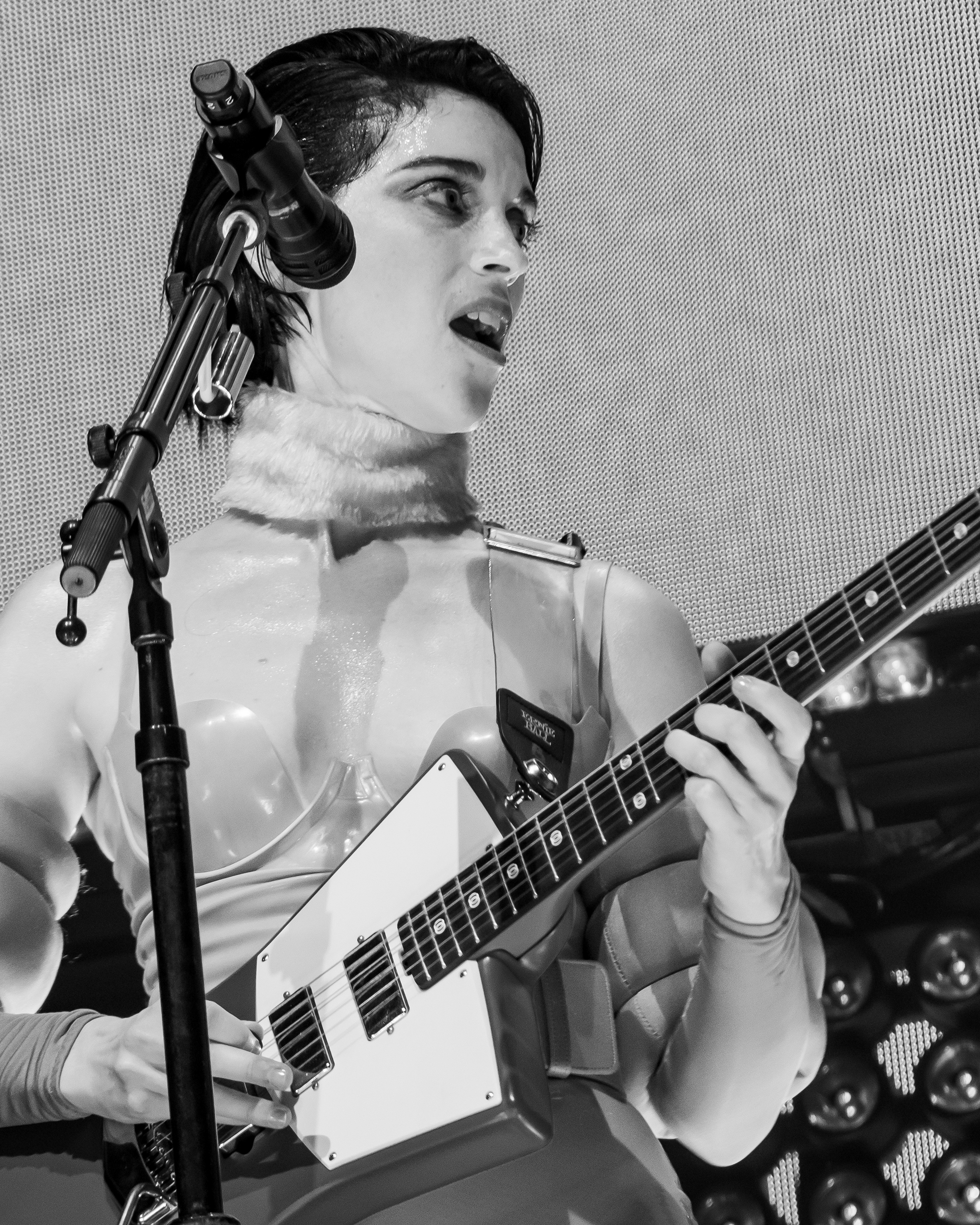 St. Vincent performing live at the Hollywood Palladium in Los Angeles, California, on Monday, October 29, 2018.